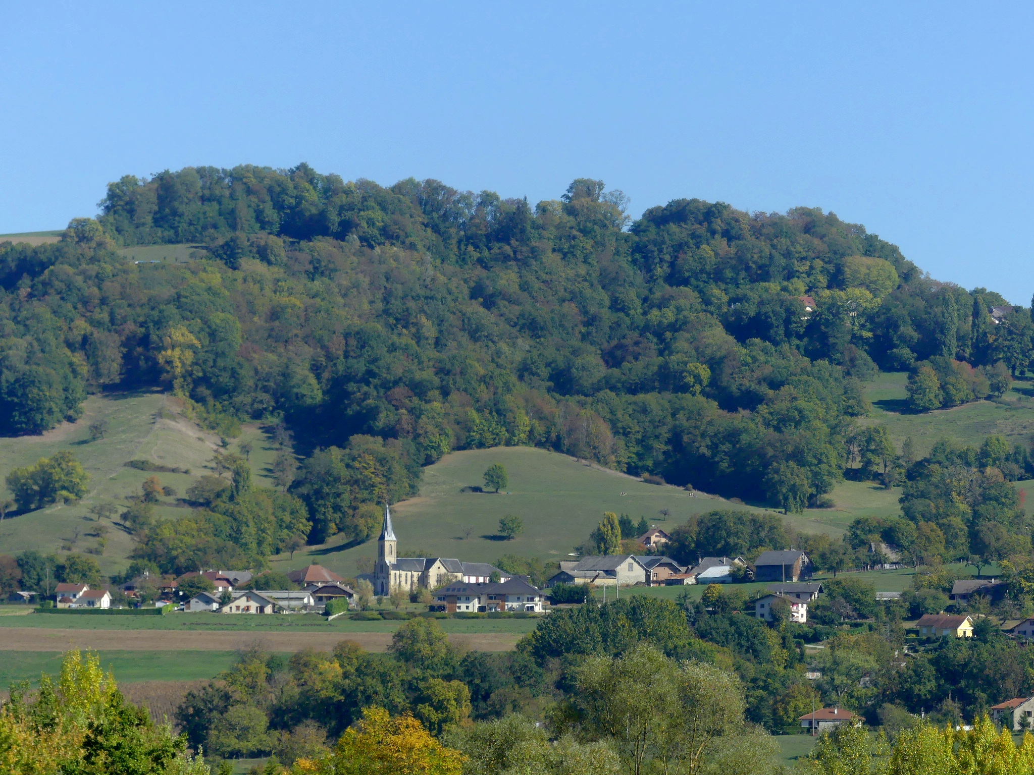 Sight, from Rumilly, of Boussy village, in Haute-Savoie, France.